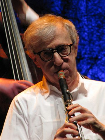 Woody Allen (born Allan Stewart Konigsberg; December 1, 1935) is an American film director, writer, actor, comedian, and playwright.